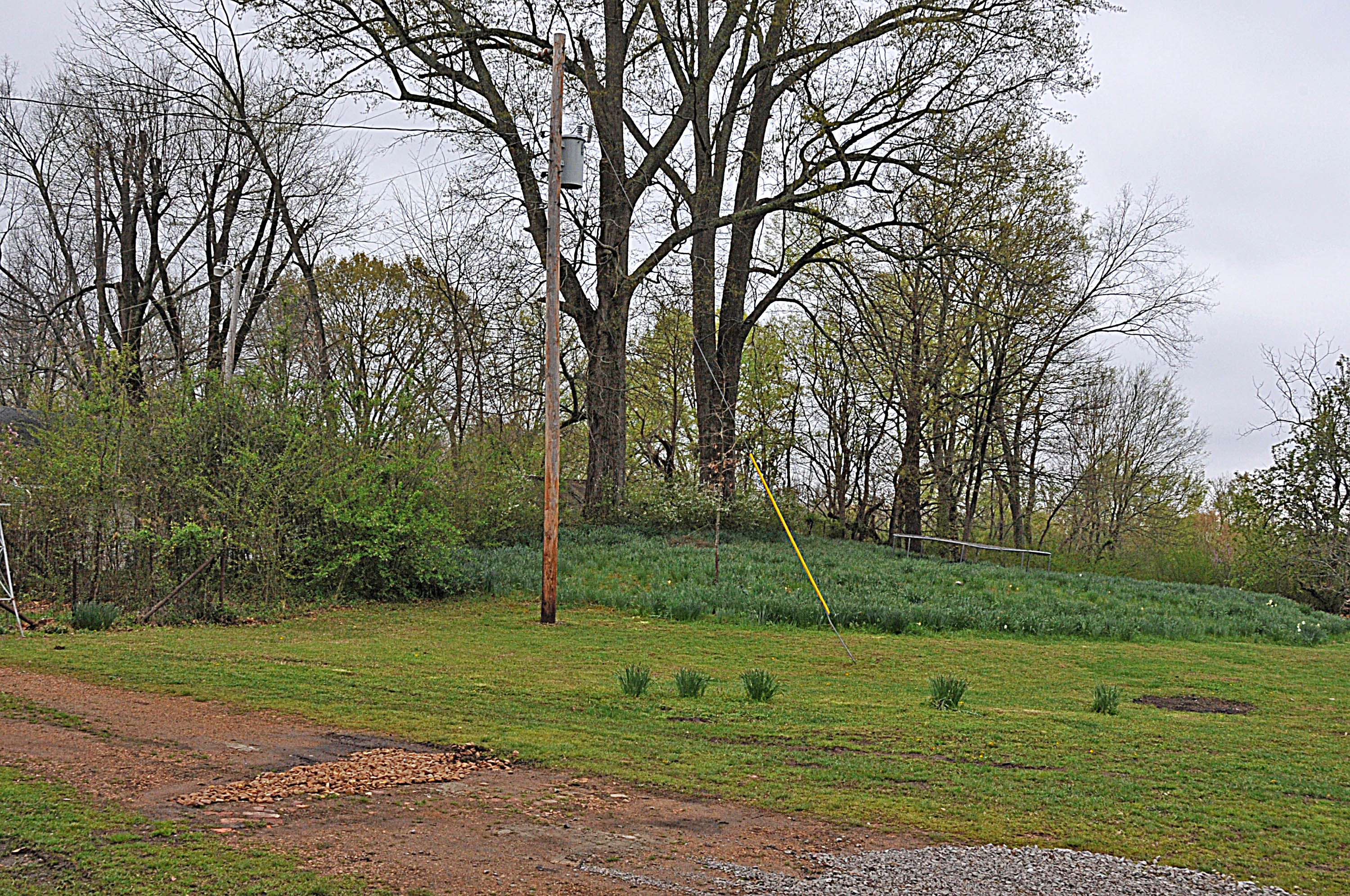 THIS IS A VIEW OF THE INDIAN MOUND WHERE UNION TROOPS WERE ENTRENCHED AND REPULSED A CONFEDERATE ATTACK BY GENERAL VAN DORN IN DECEMBER 1862